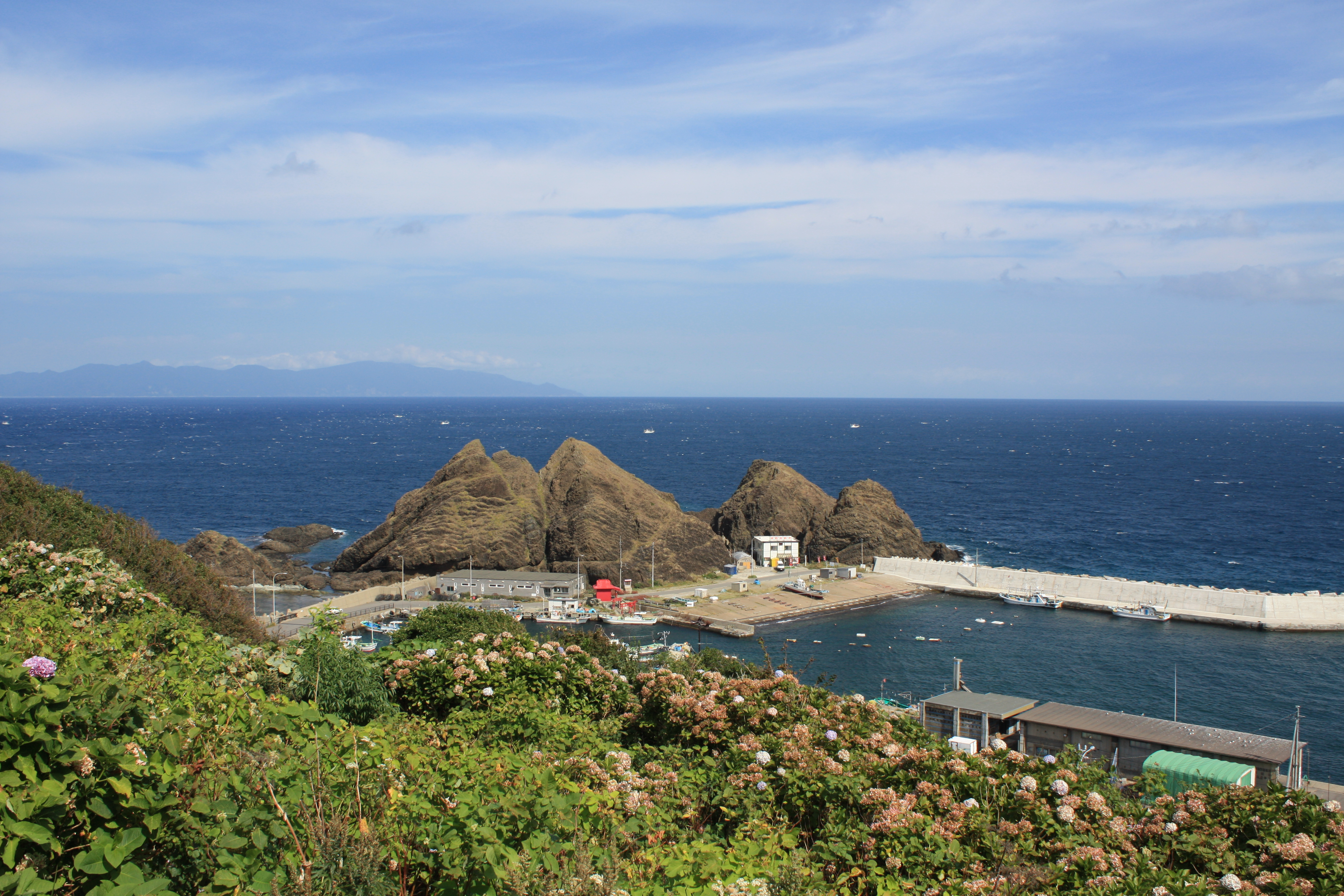 Obi Island in Sotogahama, Aomori, Japan.